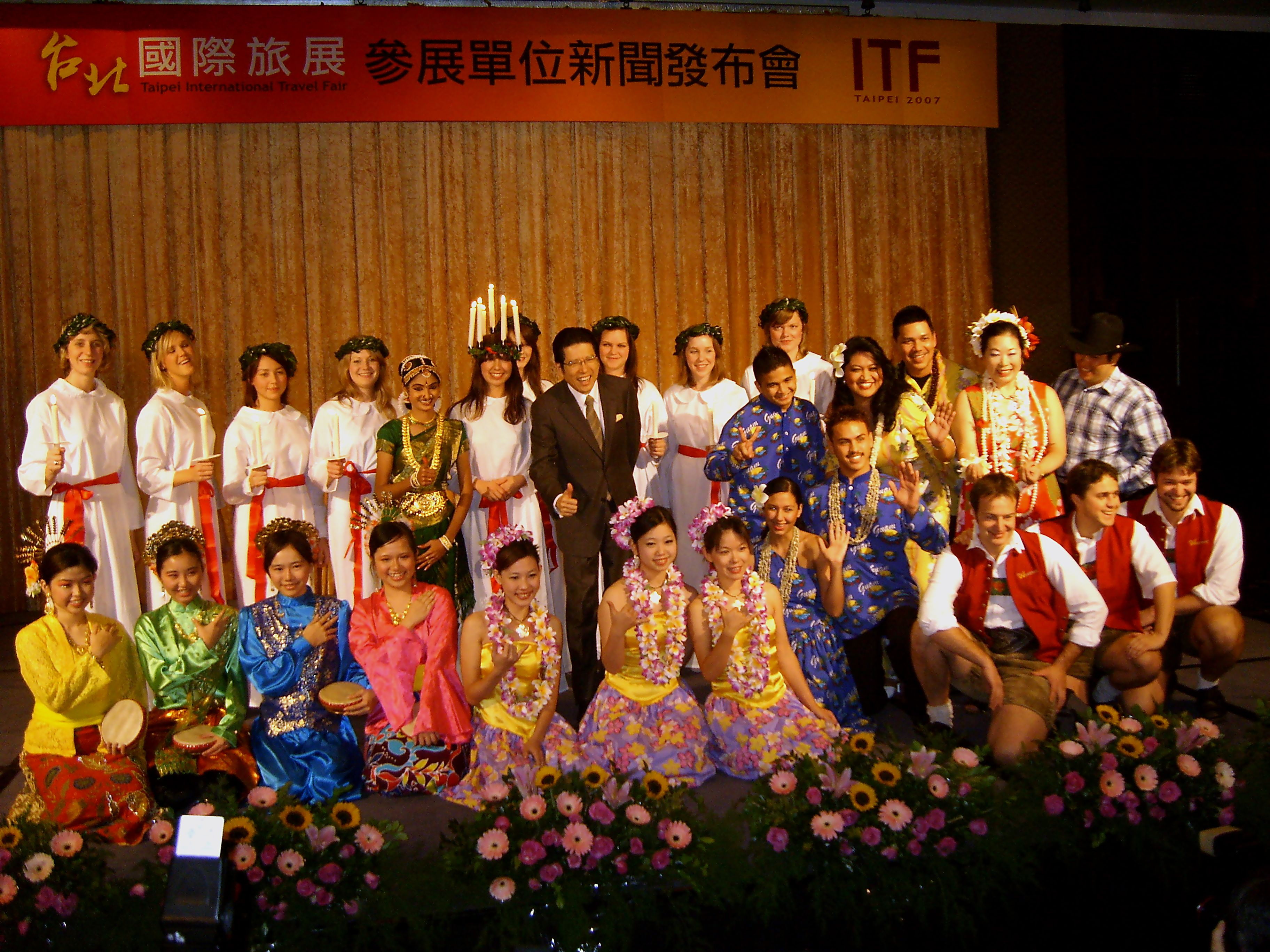 2007 Taipei International Travel Fair: Press Conference.